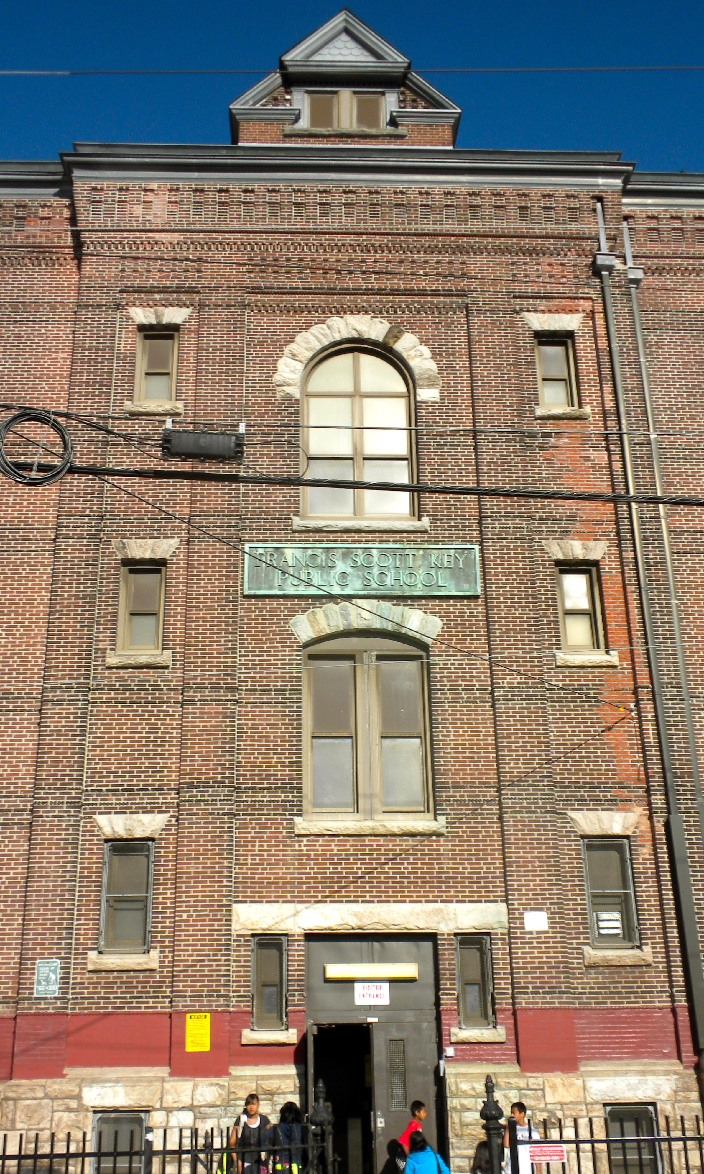 Francis Scott Key School on the NRHP since December 1, 1986. At 2230 South 8th Street in Central South Philadelphia.